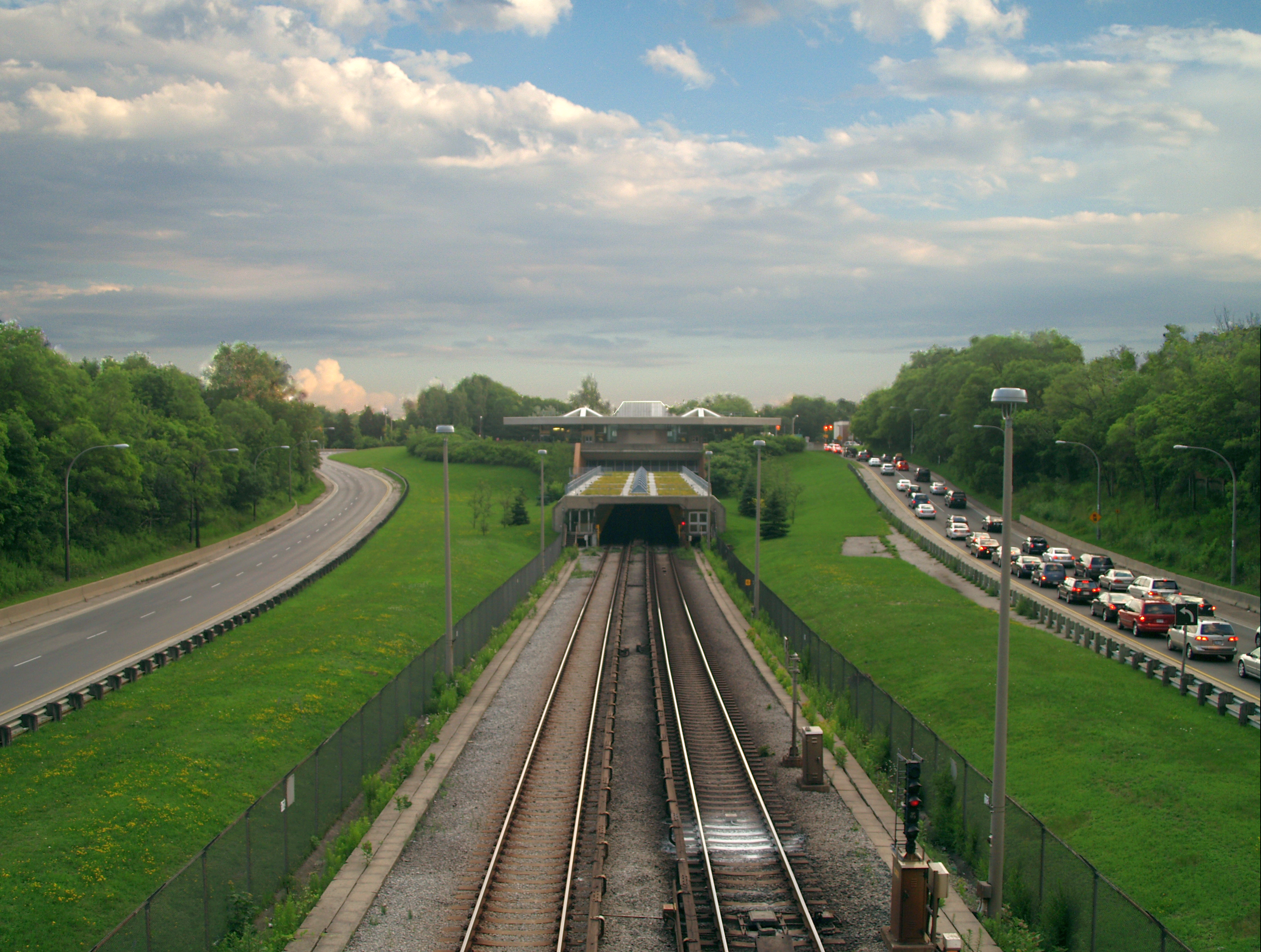 The southern end of Allen Road in Toronto, Ontario. The highway was not intended to end here, and was only half completed. As a result, traffic queues to turn left at Eglinton Avenue West (at the red light on the right side of the building). The Yonge-University-Spadina subway runs through the centre of the expressway. In this particular location, the subway was built years before the expressway.